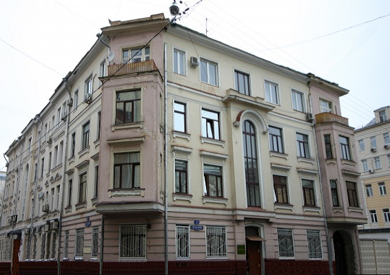 The house by P.Samarin, 1902. Skatertny lane 8 (corner of Medveshy lane), Moscow, Russia.